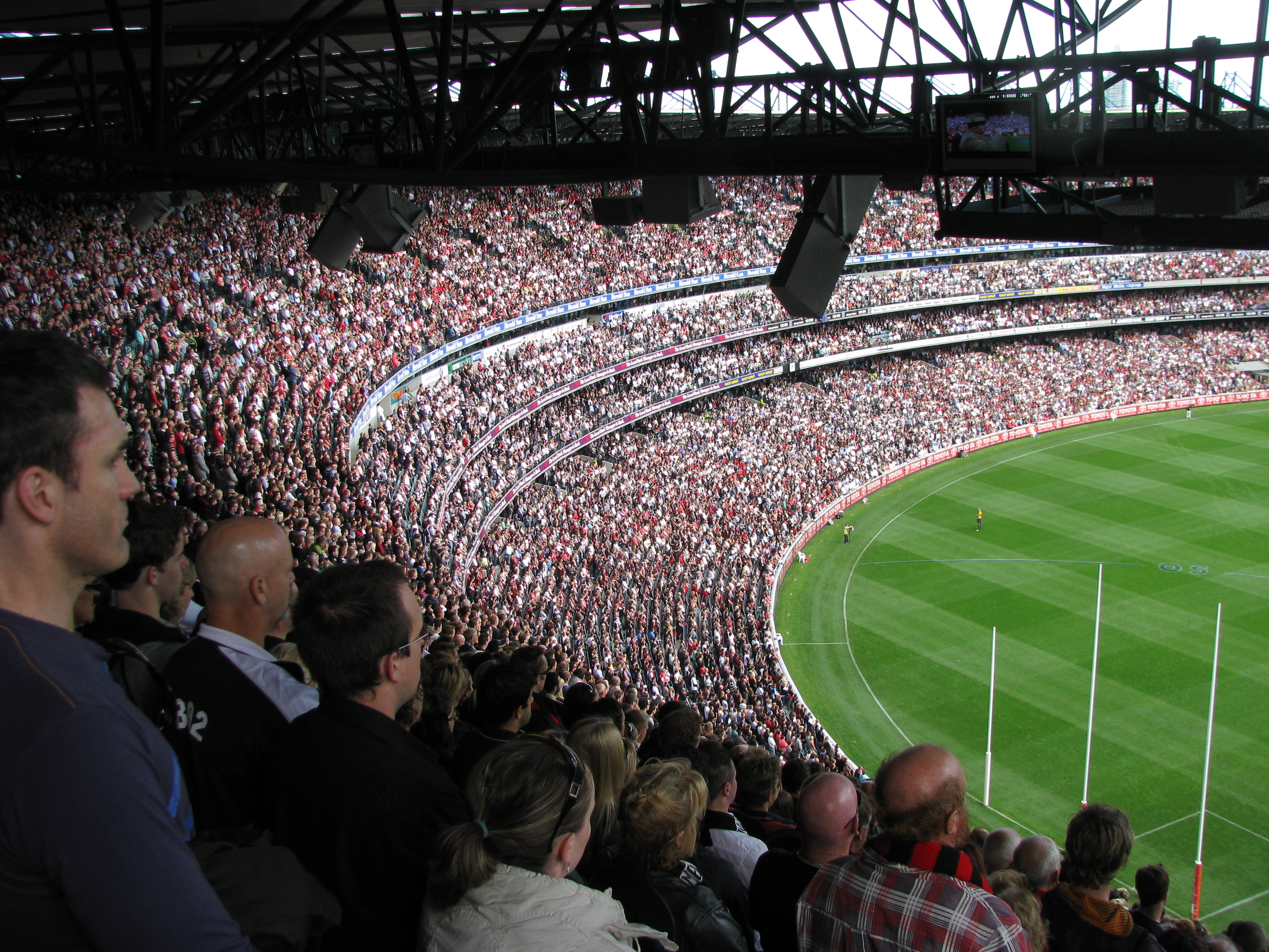 A crowd of more than 90,000 crammed into the Melbourne Cricket Ground for the annual Anzac Day Clash between Collingwood and Essendon. Collingwood won this particular match.